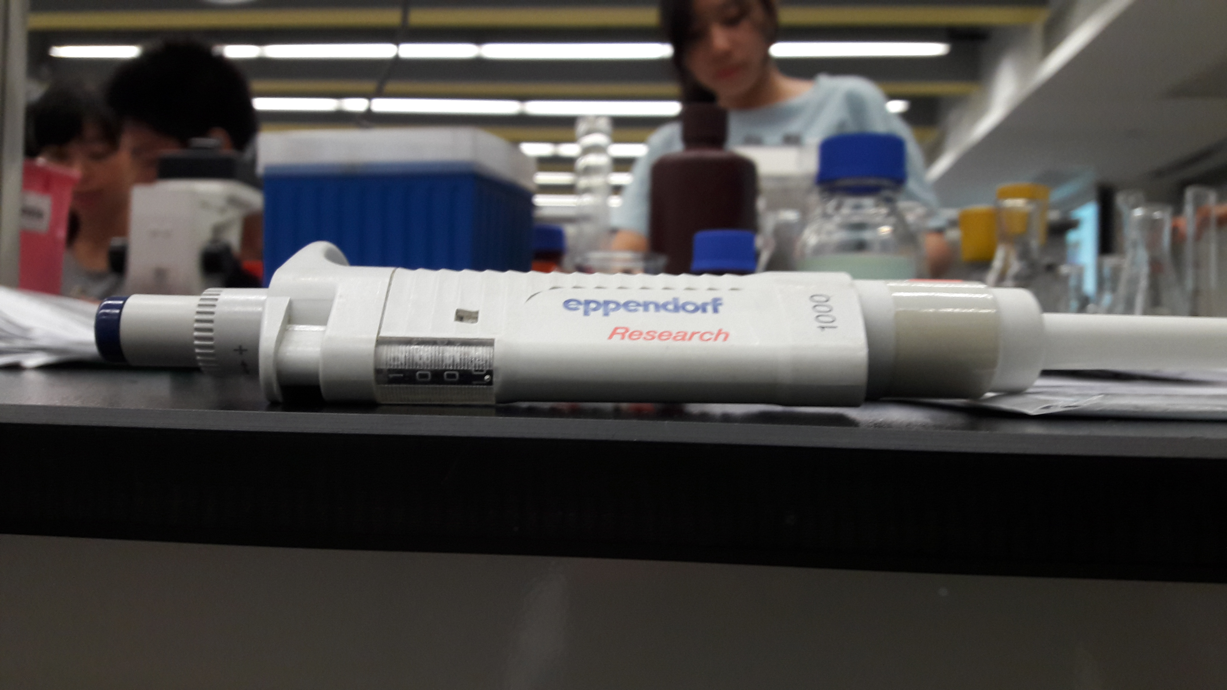 A 1000μl (1ml) pipette, with the volume to be transferred indicated.